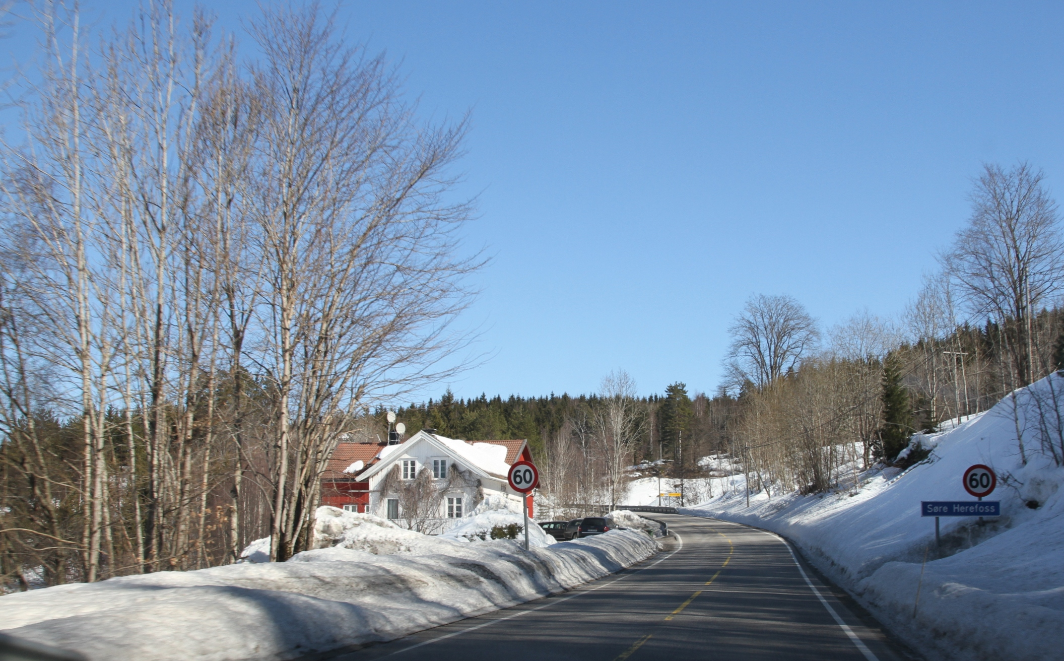 Image from the Herefoss area (formerly municipality), in northern Birkenes municipality and along the Herefossfjorden lake on the Tovdalselva river, Aust-Agder county (Norway).